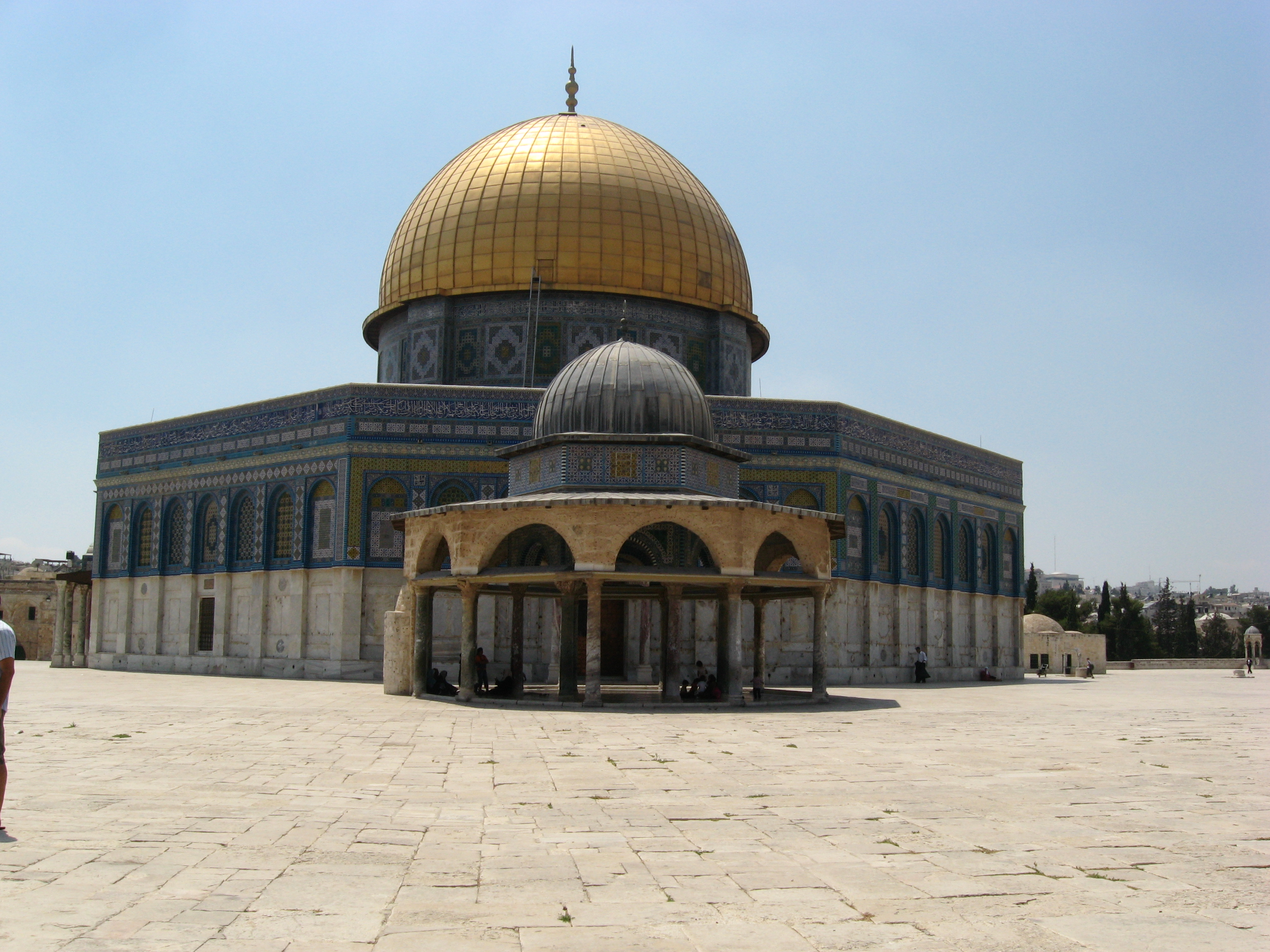 Dome of the Rock, in front you can see the Chain Dome (Qubbet as-Silsilla).